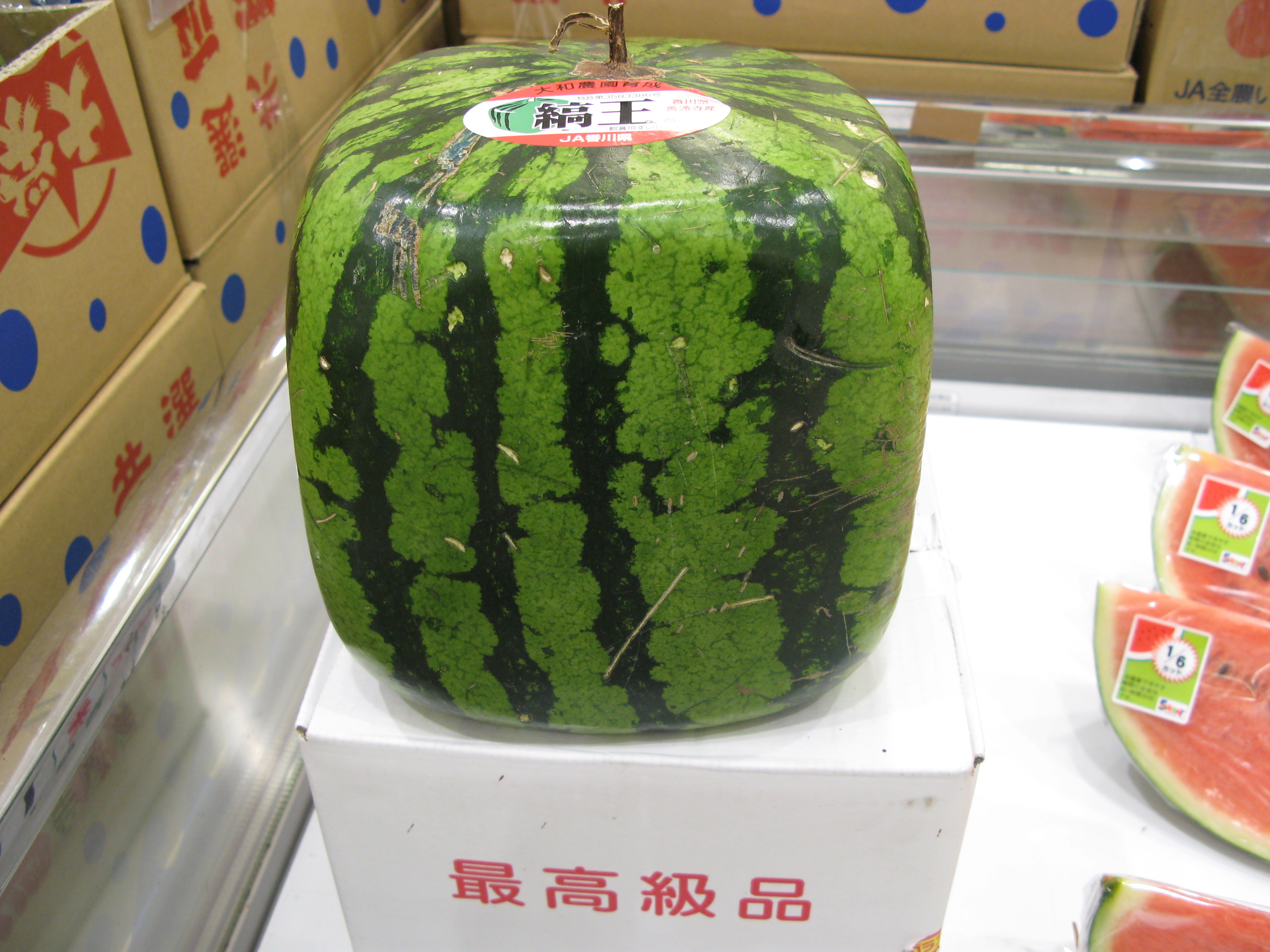 Well, after 2 years of living in Japan, I have finally spotted the notorious square watermelon. I can now say, yes...they are real.